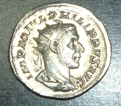 This specific Antoninianus was issued during the reign of Marcus Julius Philippus I who reigned from 244 - 248. It says: "IMP M IUL PHILIPPUS AUG" which translates to English as: Emperor Marcus Julius Philippus Augustus.